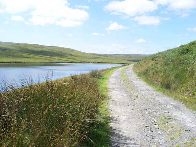 Track alongside Claerwen Reservoir